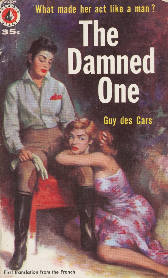 Cover of "The Damned One" by Guy des Cars, 1956. Illustration by George Ziel.